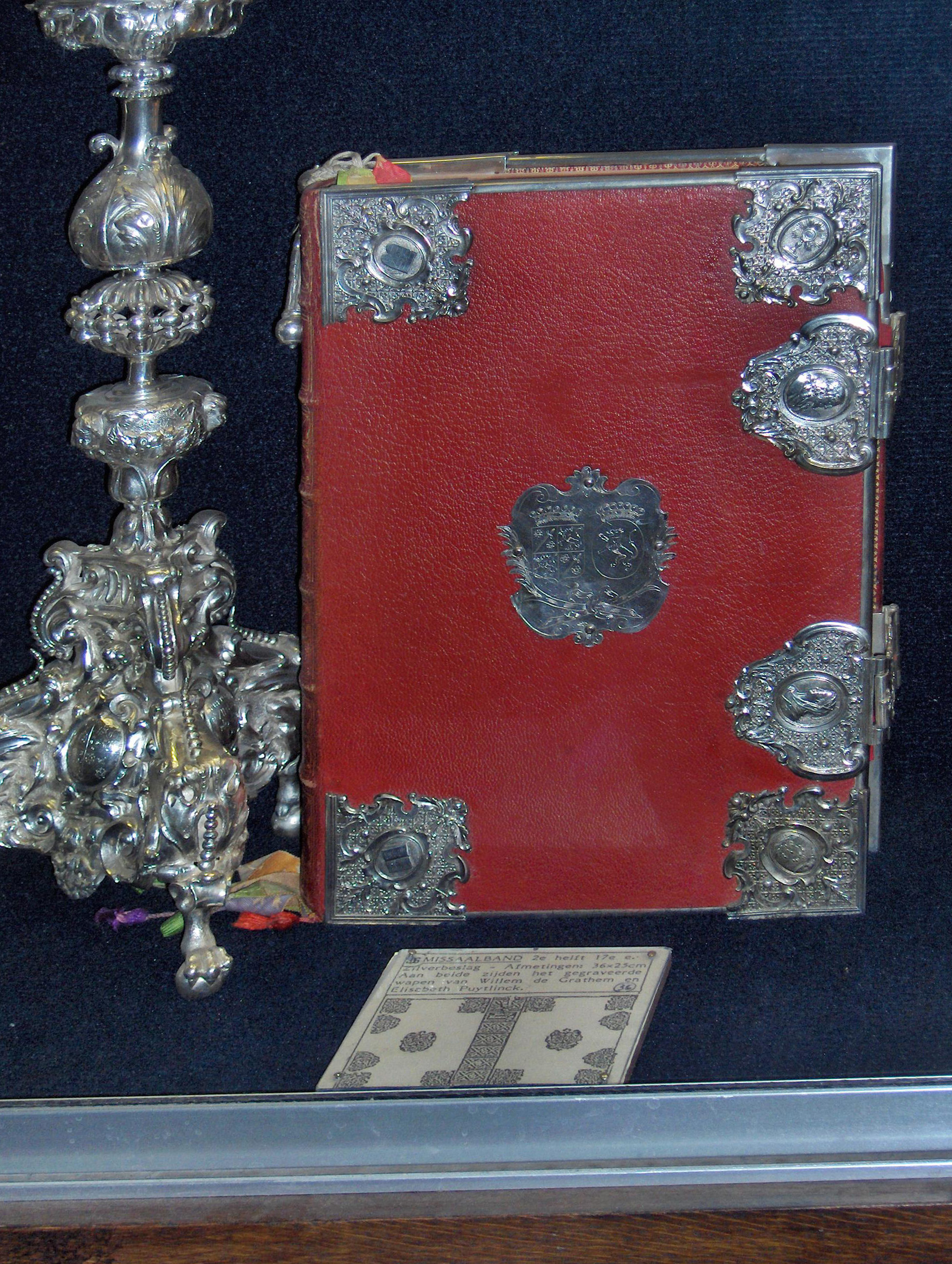 Missal cover (second half 17th c.) with silver mount; treasure of the St. Catharinakerk in Maaseik, Belgium